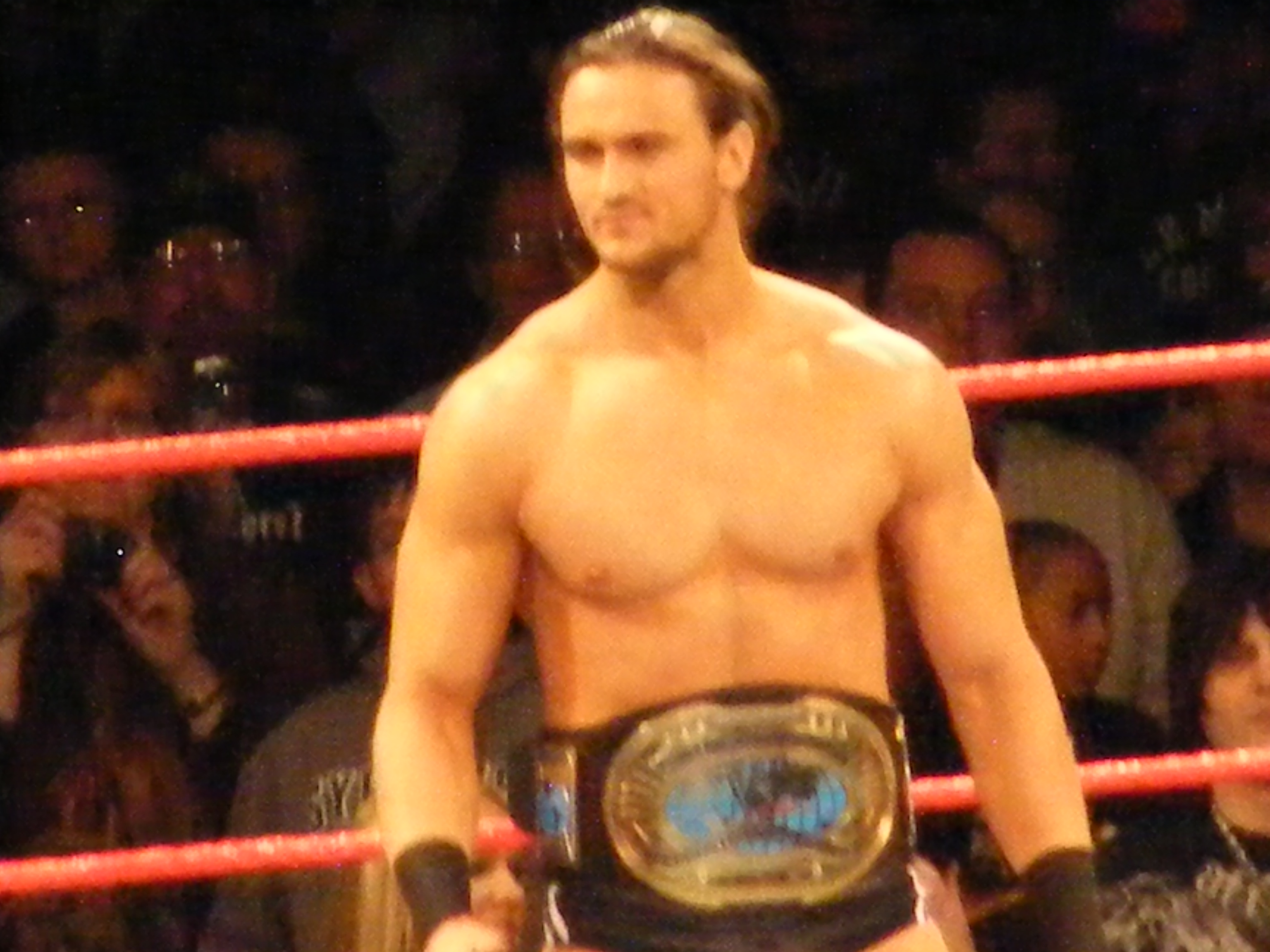 Professional wrestler Drew McIntyre (real name Drew Galloway) as the Intercontinental Champion prior to a match against John Morrison at a WWE show in Syracuse on December 30, 2009.